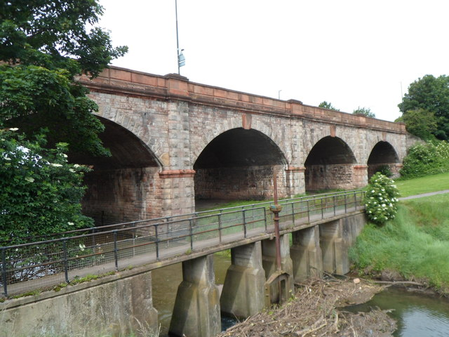 Road bridge and footbridge across the River Trym, Sea Mills, Bristol